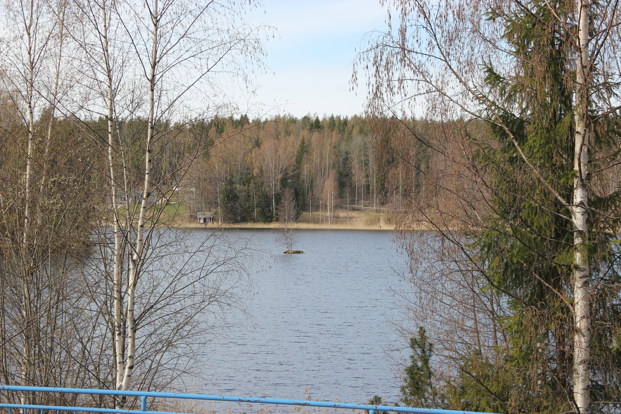 Lake Lahnajärvi in April 2014 when the spring was very early